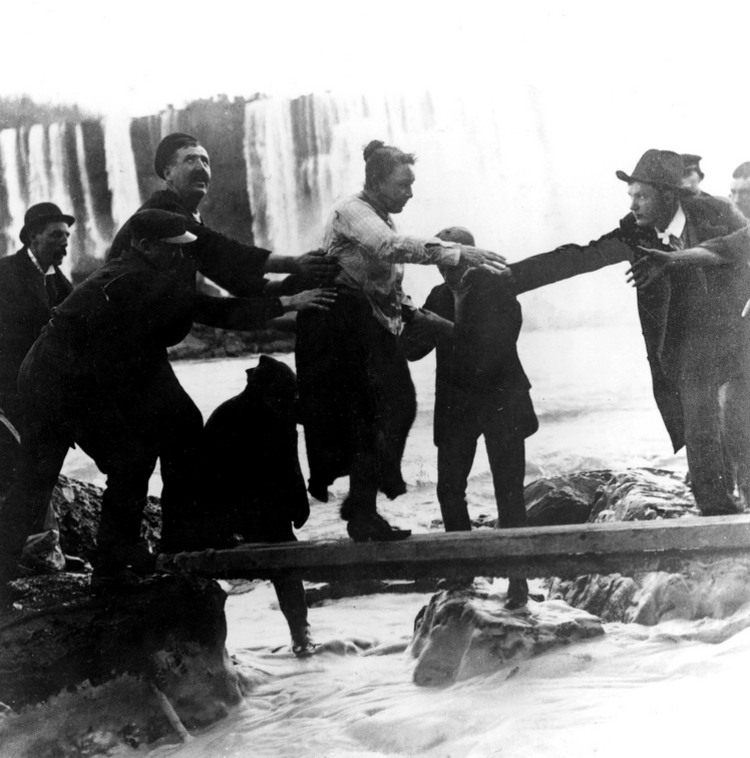 Annie Edson Taylor after her trip over Niagara Falls leaver her barrel